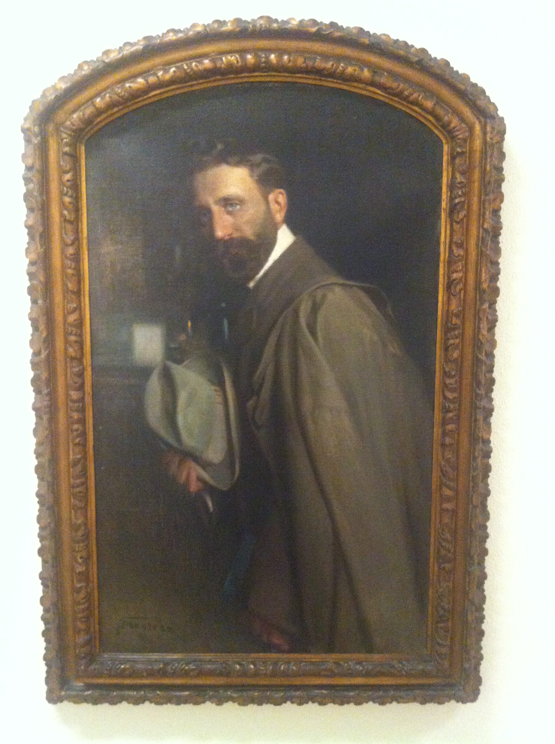 Paintings exhibited at La Mirada persistent exhibit in Figueres